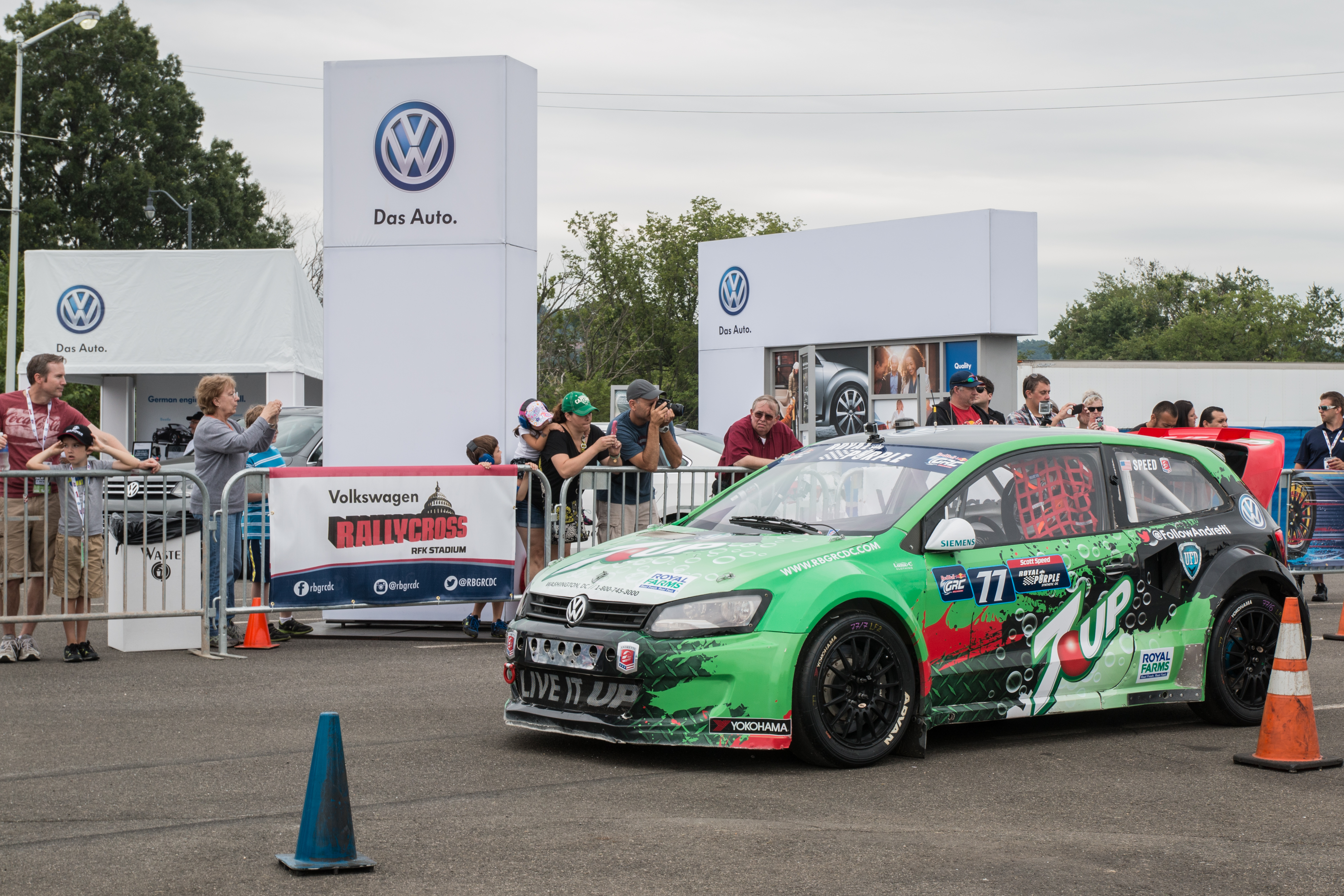 Scott Speed driving for Andretti Autosport in his VW Polo Supercar. Round 3 of the 2014 Global RallyCross Championship at RFK Stadium, Washington D.C.